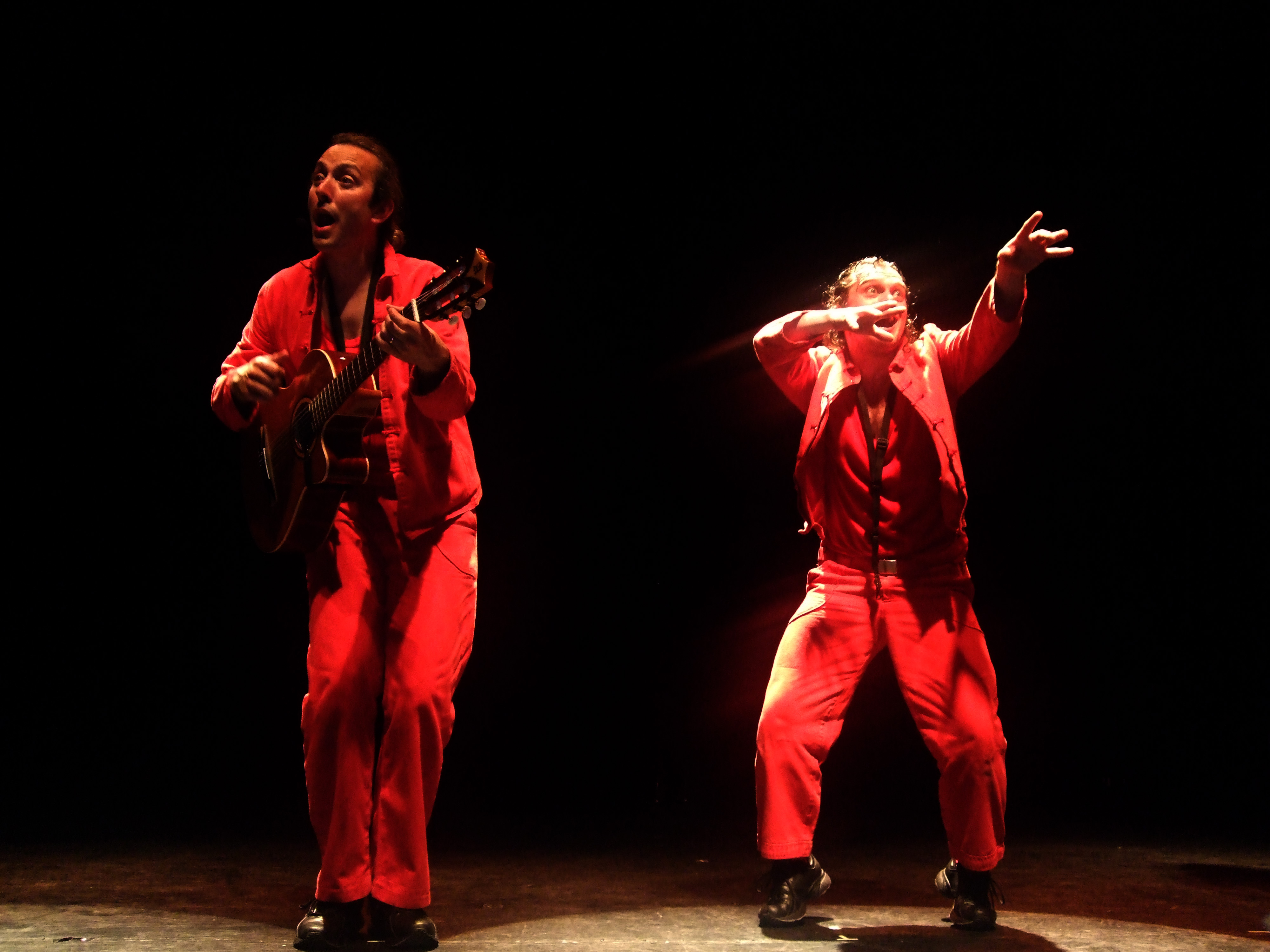 Les Wriggles in Clermont-ferrand. (France)